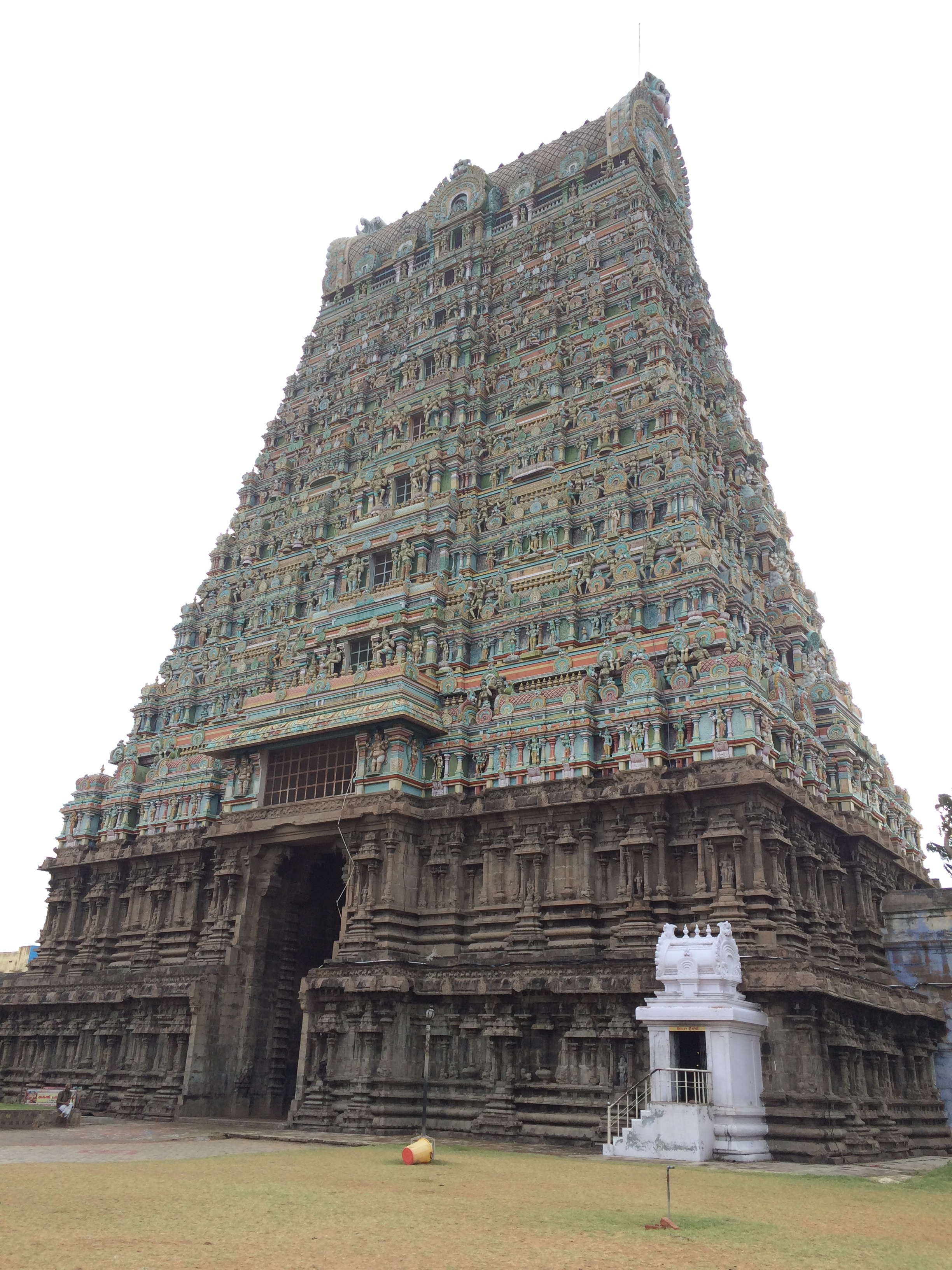 Gopuram (Gopura) of Tenkasi temple which is the second largest in Tamilnadu built during the 16th century by King Parakrama Pandya.